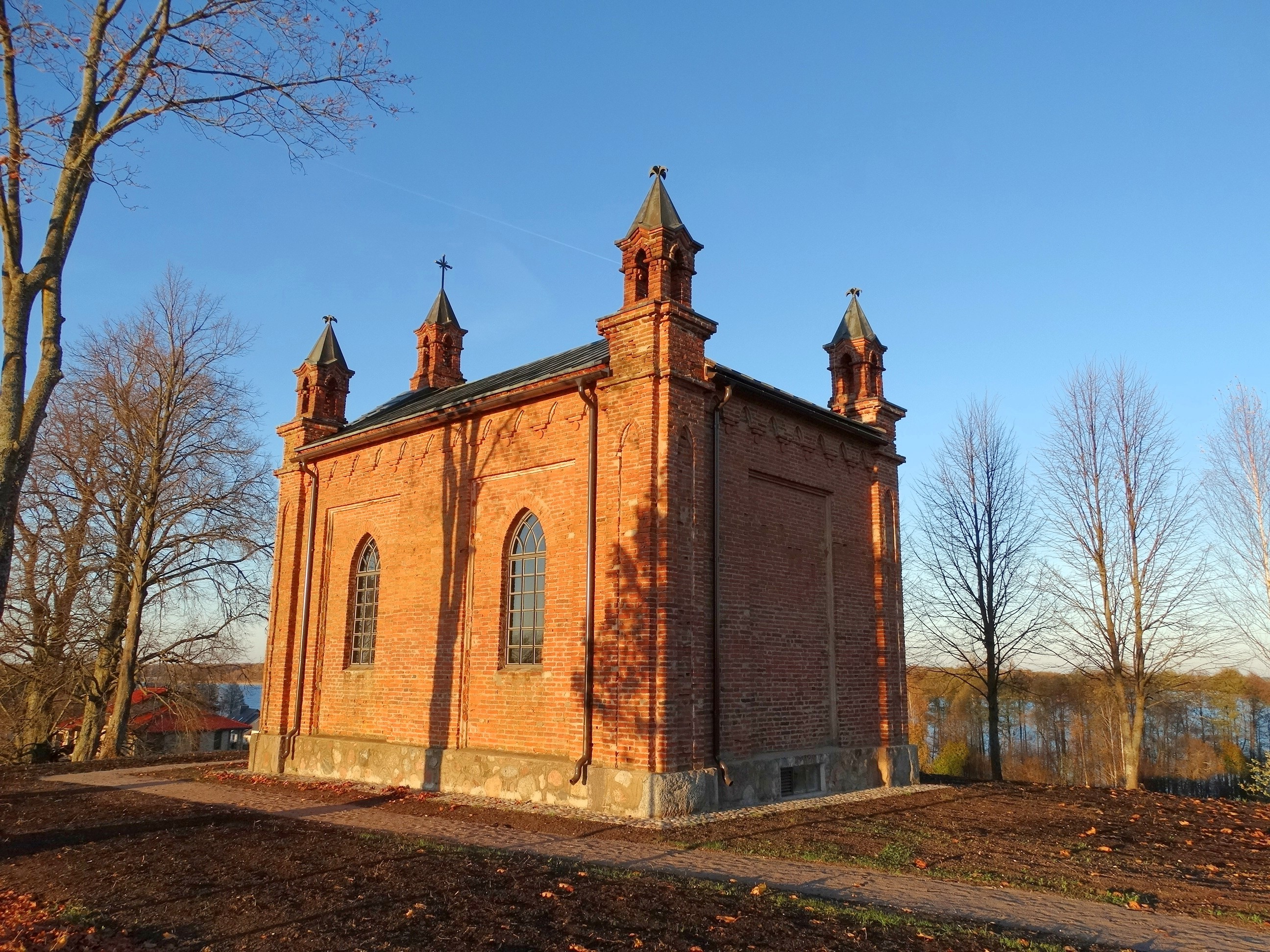 Backside view, chapel in Bukaučiškės, Alytus district, Lithuania